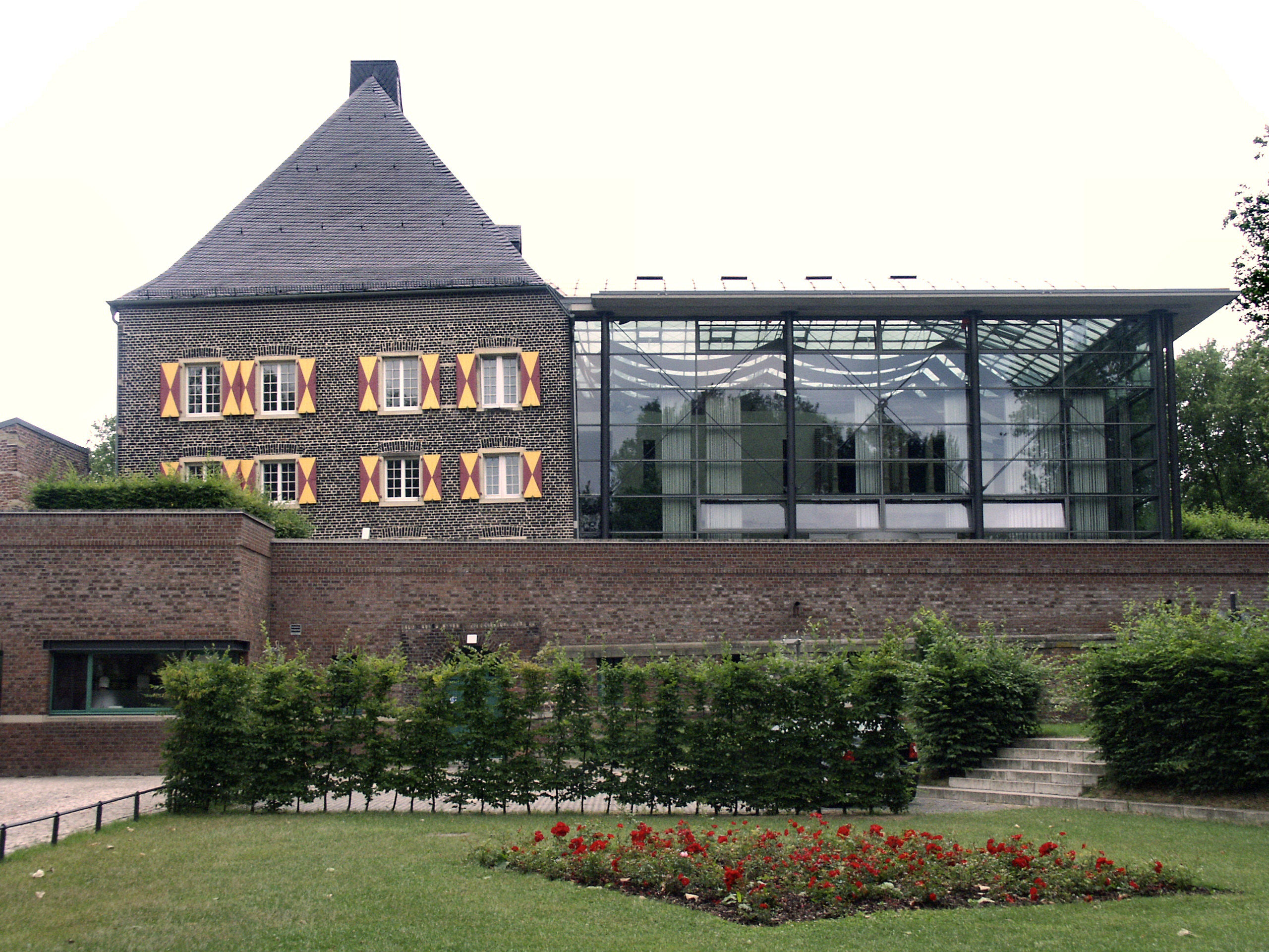 Horst Castle in Gelsenkirchen, south-eastern front